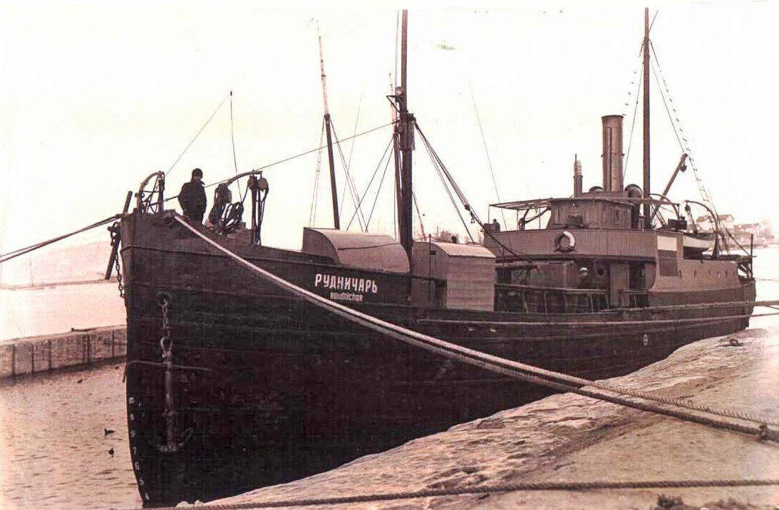 The Rudnichar (ship) as photographed in late 1939 or early 1940 by an Anonymous photographer Anchored in the port of Varna